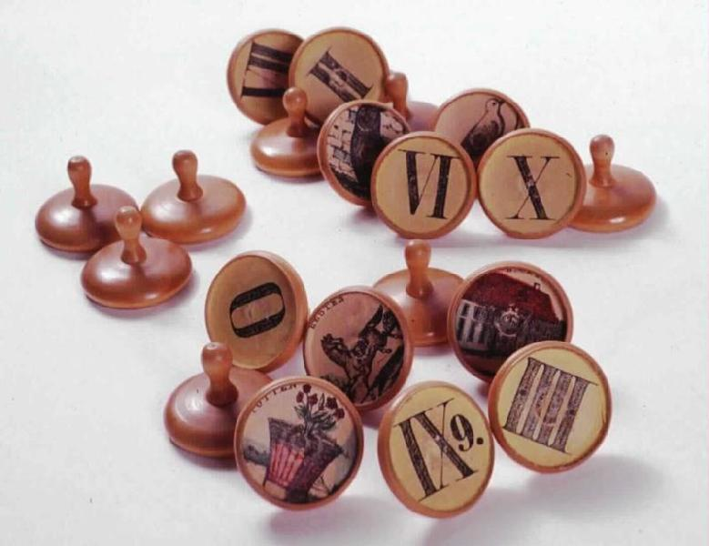 Picture of own pieces from the game Gnav, an old Norwegian board game